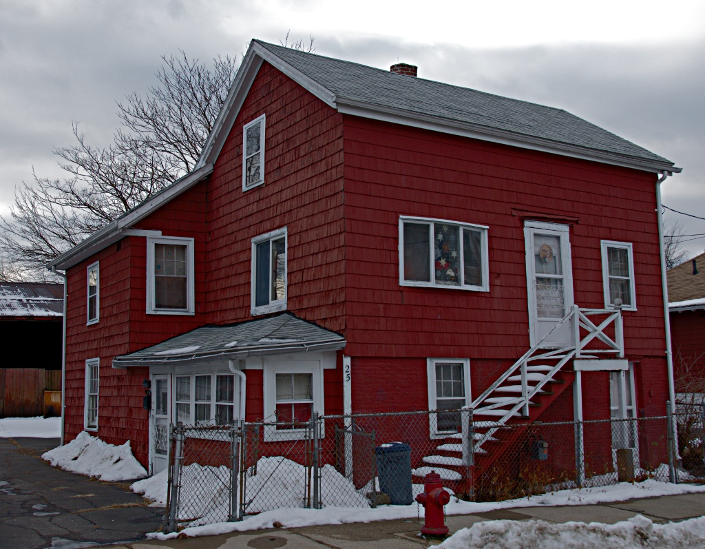 A photo of the historic House at 25 Clyde Street in Somerville, Massachusetts.